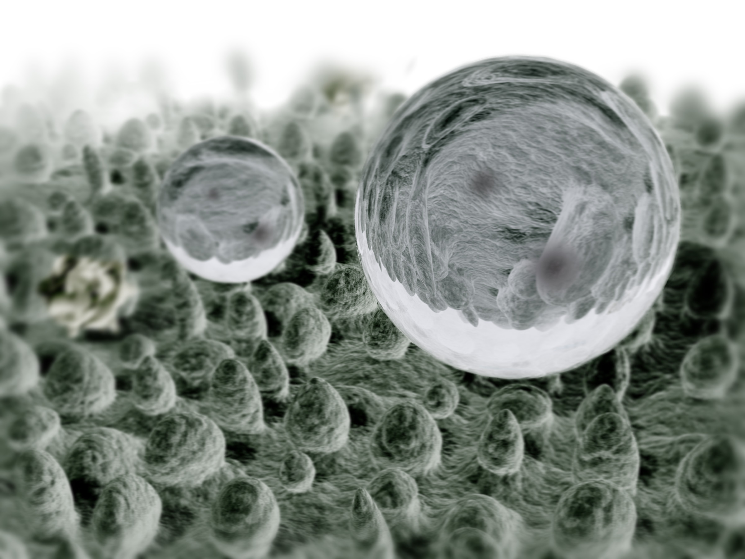 Microscopic image of a Lotus leaf with some drops of water. CG of Lotus effect.